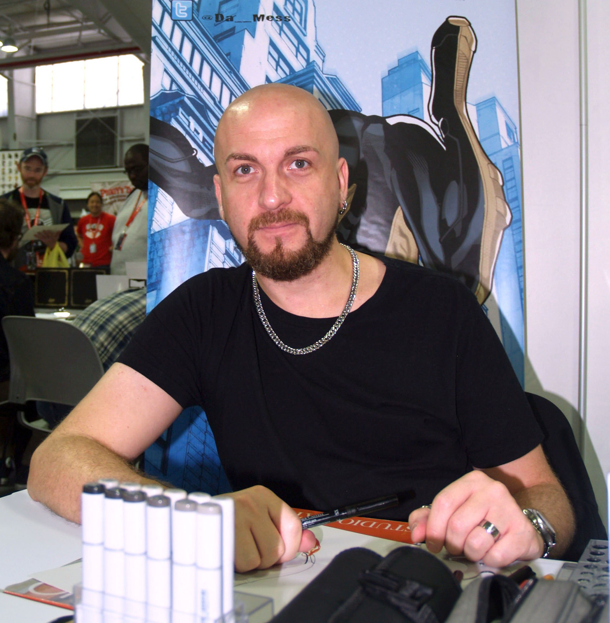 Italian comics artist David Messina on Sunday, June 15, 2014, Day 2 of Special Edition NYC, a comic book convention at the Jacob K. Javits Convention Center in Manhattan. This photo was created by Luigi Novi. It is not in the public domain, and use of this file outside of the licensing terms is a copyright violation.